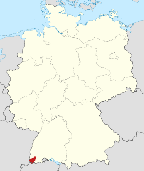 Locator map of Landkreis Lörrach in Baden-Württemberg, Germany.